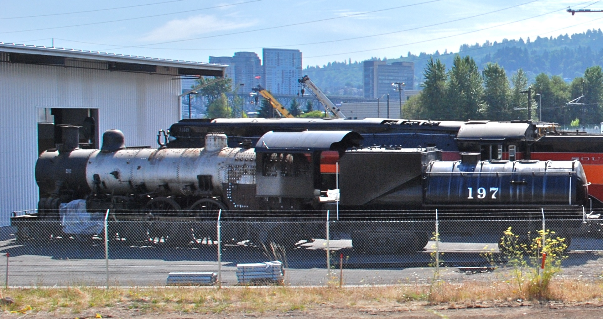 Oregon Railroad & Navigation Co. 197 outside the Oregon Rail Heritage Center (in Portland, Oregon), when the center was still under construction. (Southern Pacific 4449 is next to it.)